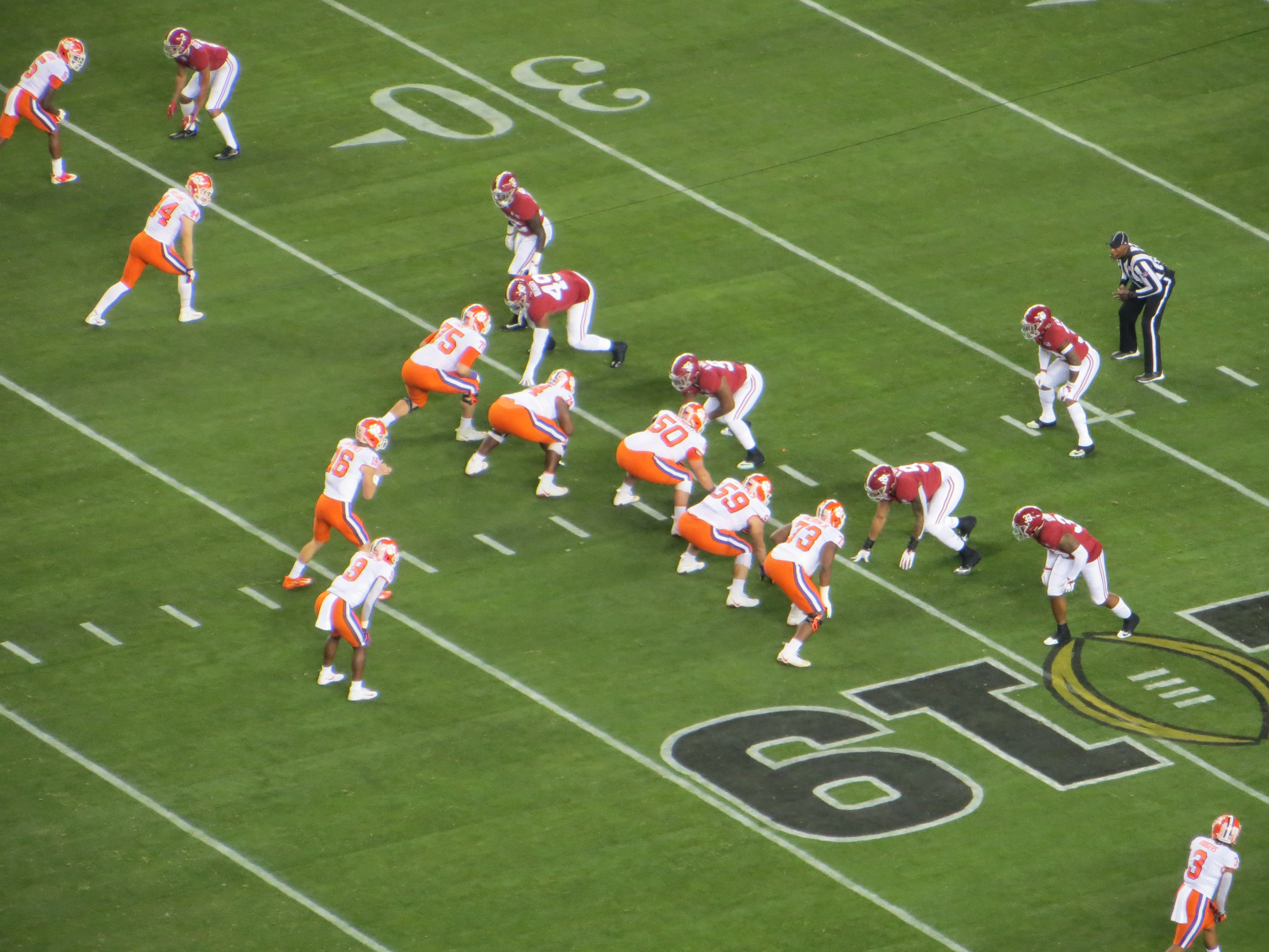 Clemson's offense prepares to run a play during their first drive at the 2019 College Football Playoff National Championship.